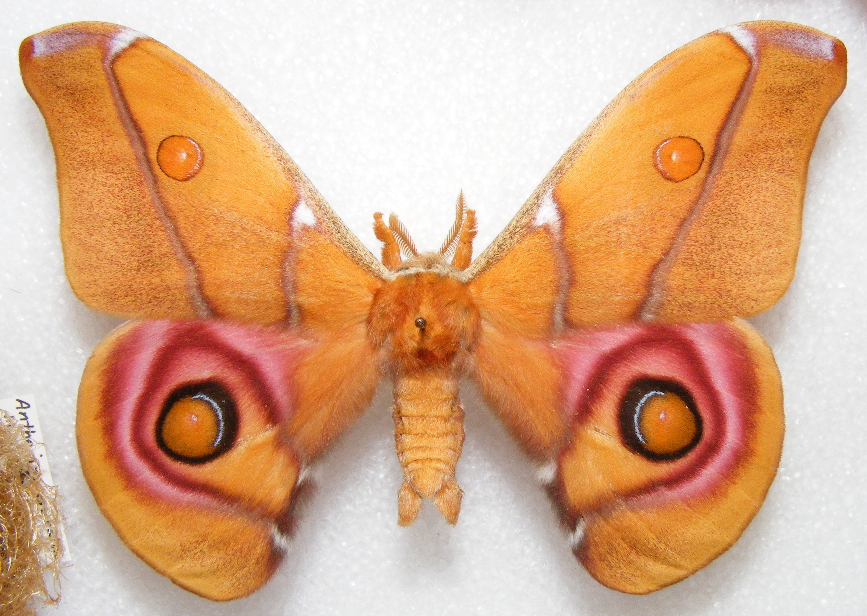 Antherina suraka adult from the Texas A&M University Insect Collection